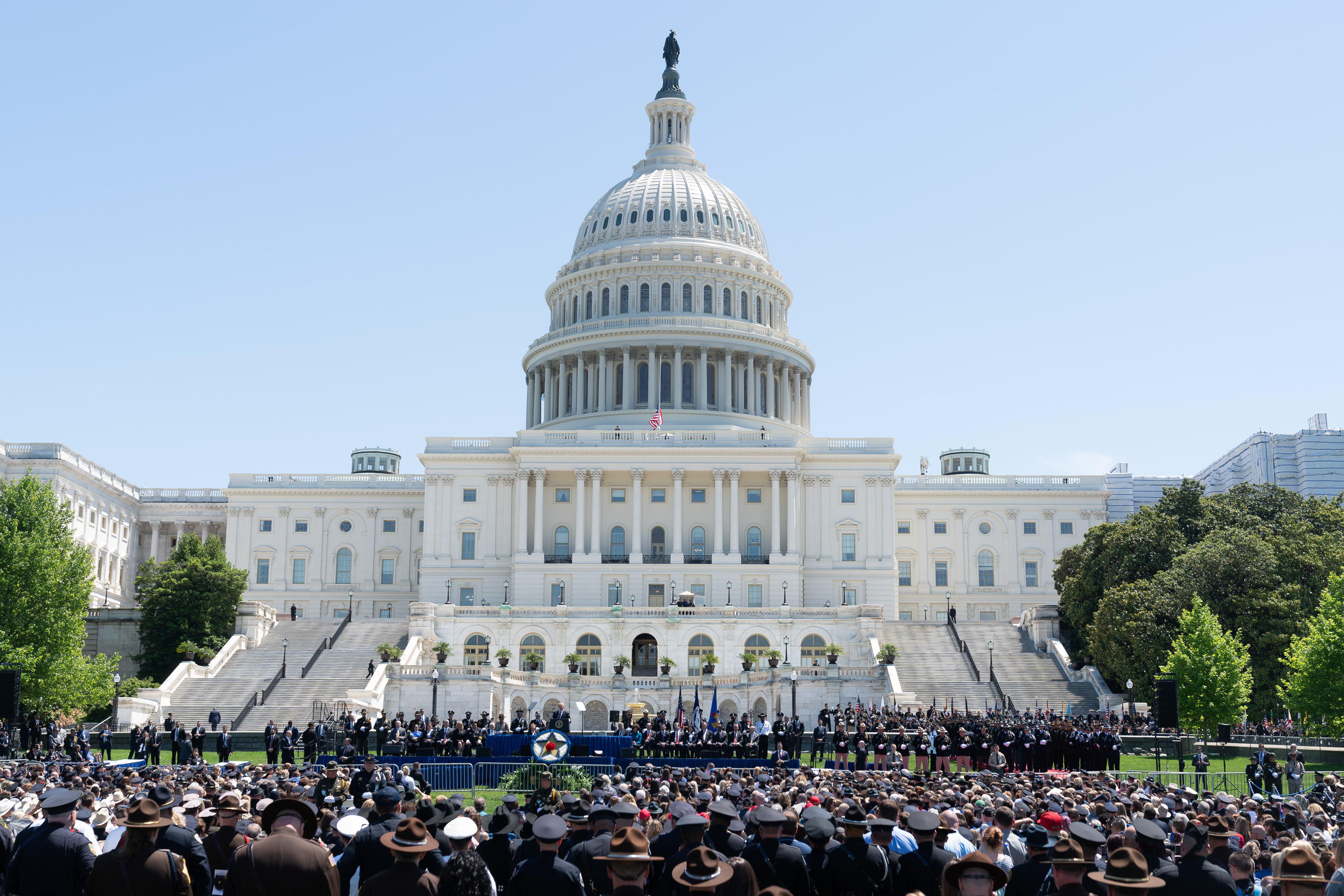 President Donald J. Trump attends the 38th annual National Peace Officers’ Memorial Service Wednesday, May 15, 2019, at the U.S. Capitol in Washington, D.C. (Official White House Photo by Shealah Craighead)